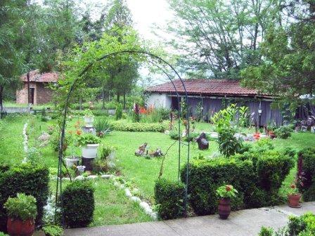 църква "Успение Богородично" с. Бараково